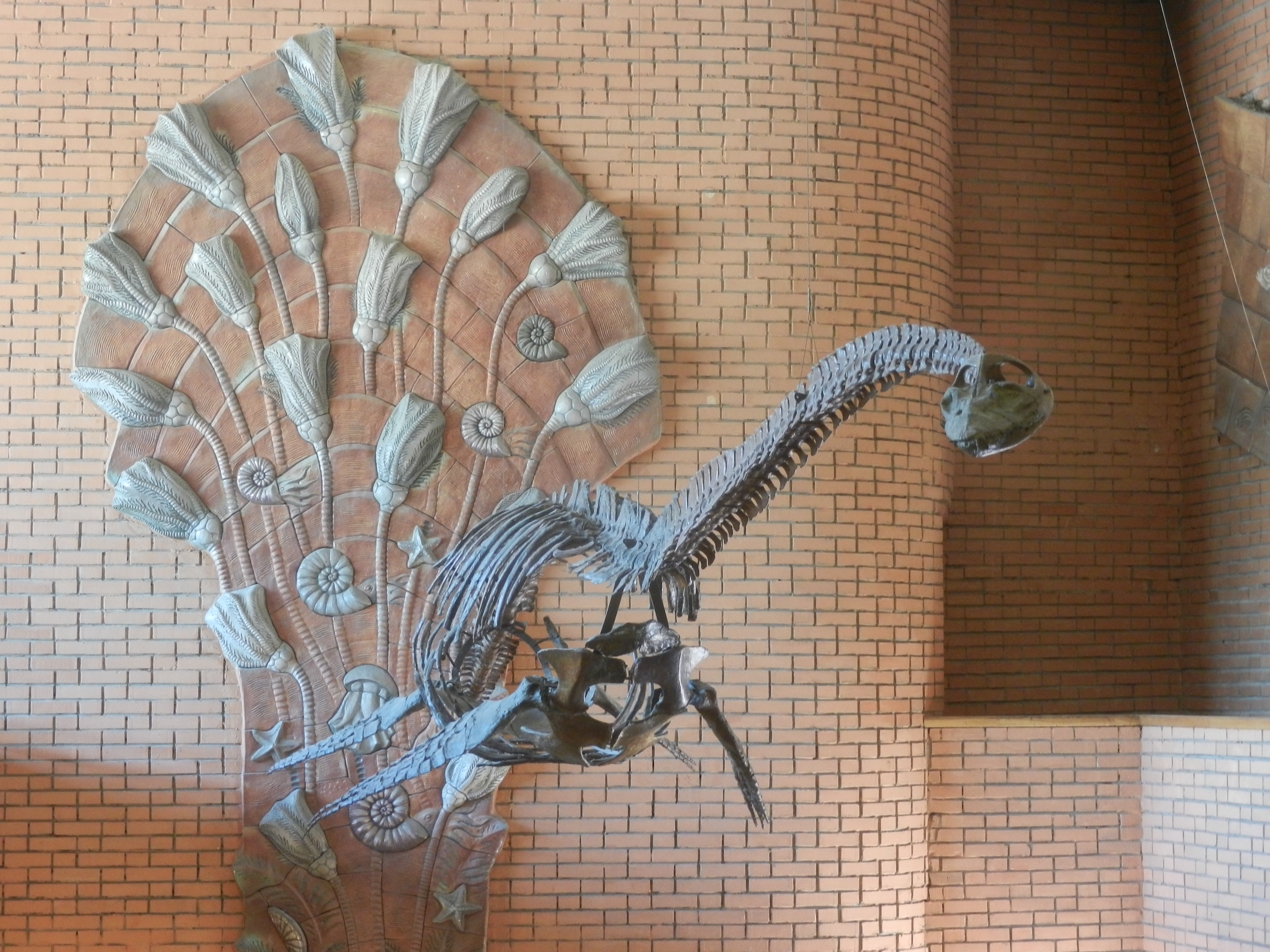 Скелет Wellesisaurus sudzuki, Палеонтологический музей им. Ю.А.Орлова